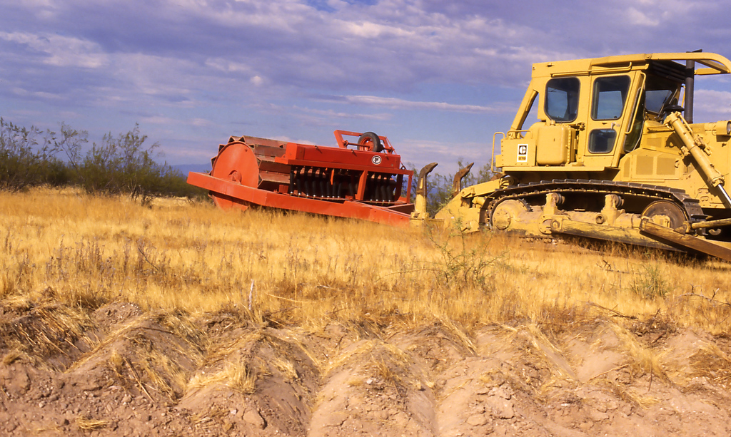 A land imprinter seeds grasses in the desert southwestern USA. Note that no tilling was required before imprinting. The roller mulches existing ground cover directly into the soil, with seeding and imprinting achieved in a single pass.